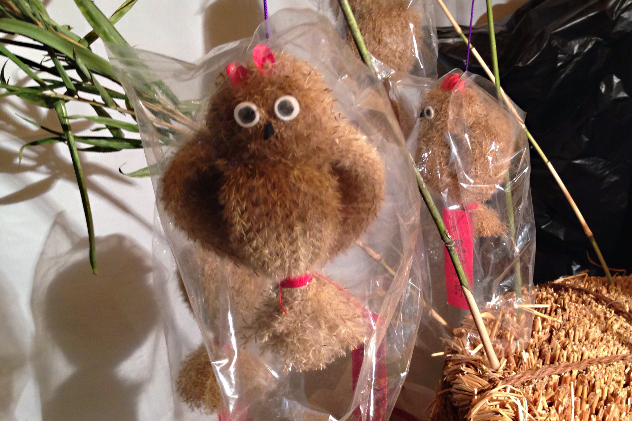 Susukimimizuku at Zoushigaya Kishimojin